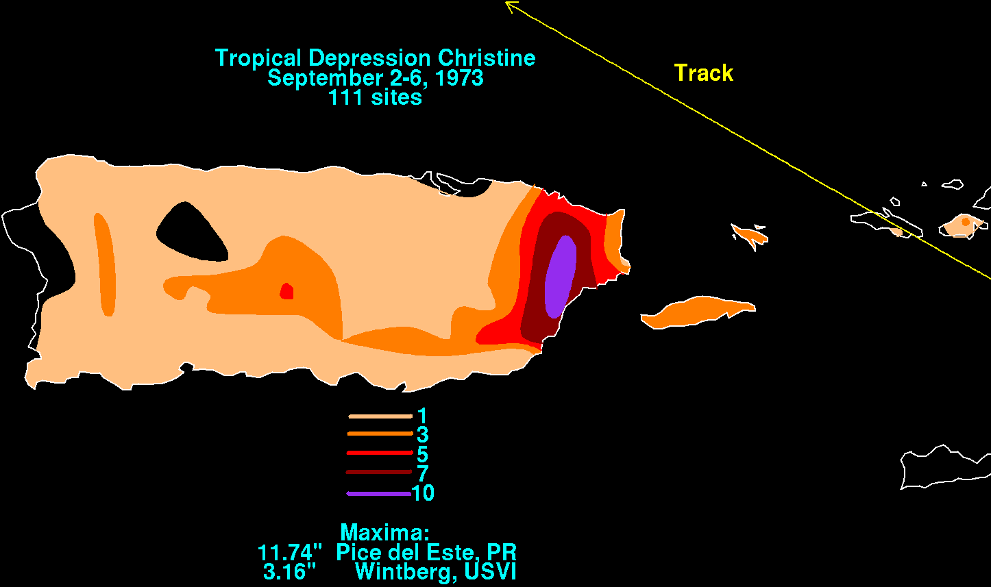 Storm total rainfall map of Tropical Storm Christine during September 1973.